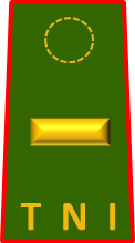 Second Lieutenant rank insignia that used on daily uniforms of Indonesian Army (holder of command)